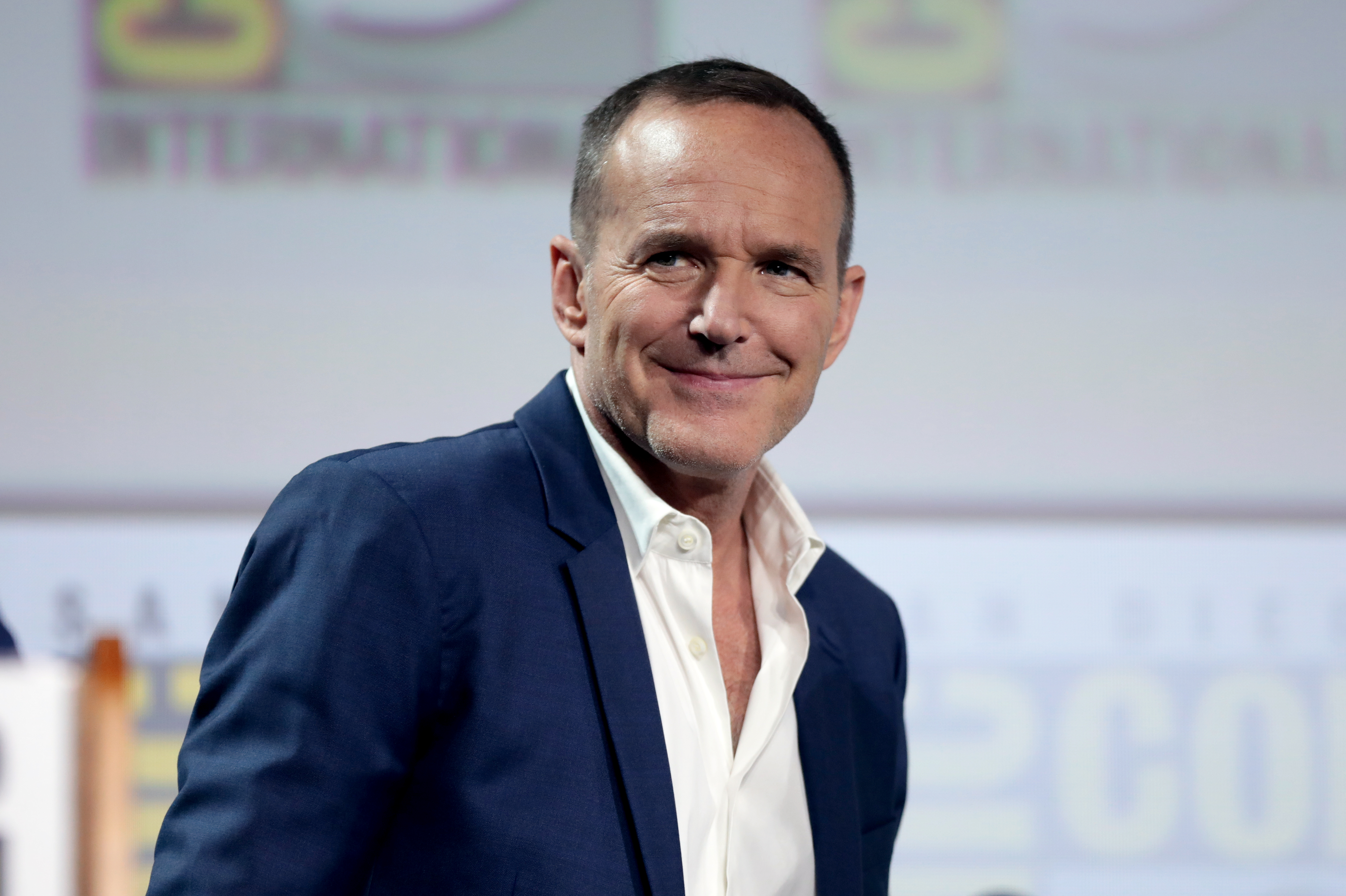 Clark Gregg speaking at the 2019 San Diego Comic Con International, for "Marvel's Agents of S.H.I.E.L.D.", at the San Diego Convention Center in San Diego, California.